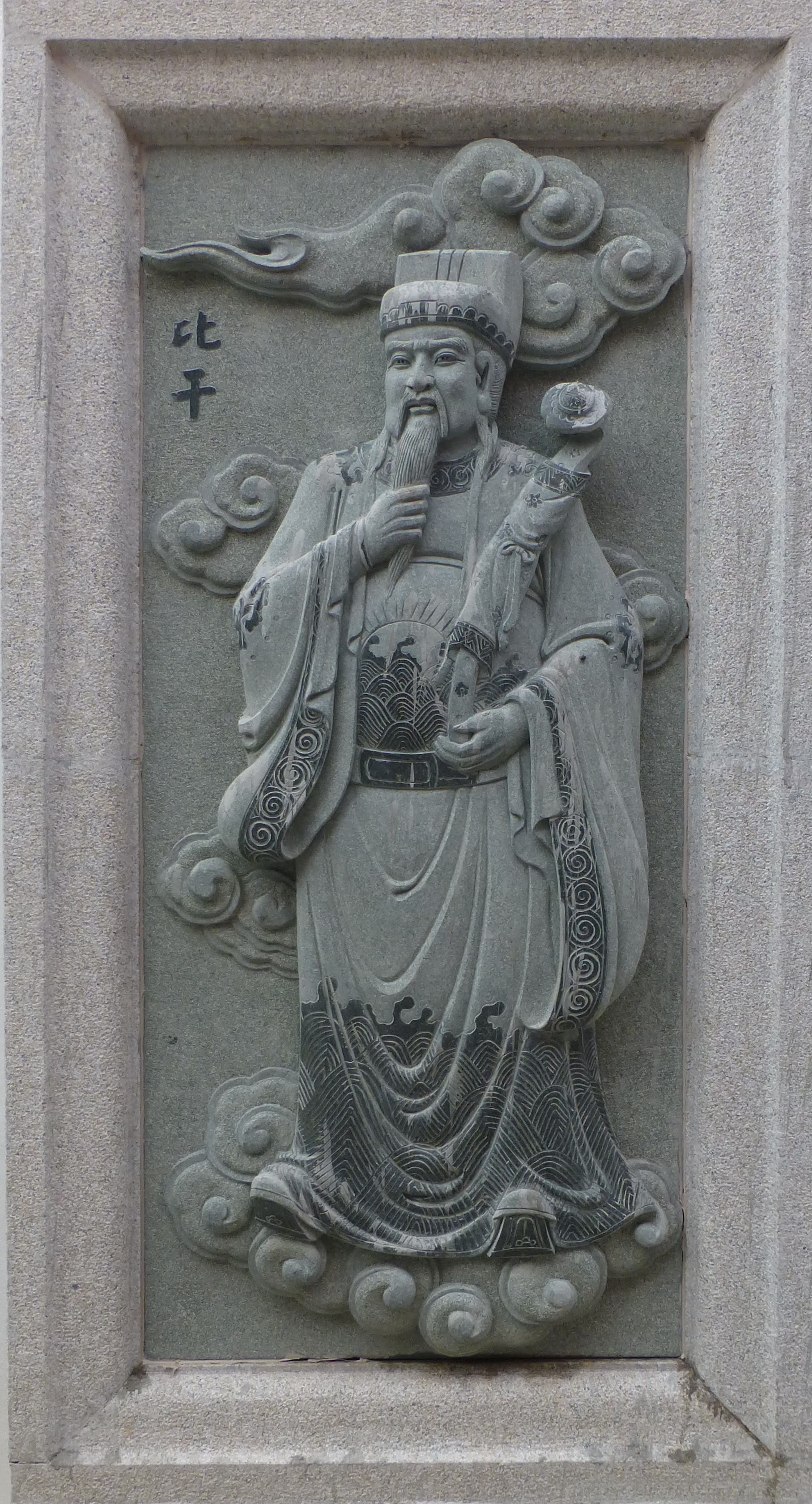 003 Bigan, Investiture of the Gods at Ping Sien Si, Pasir Panjang, Perak, Malaysia Photograph from the Ping Sien Si Temple in Perak, Malaysia taken by Anandajoti.